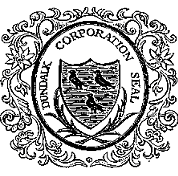 Dundalk Corporation, as shown in 'A Topographical Dictionary of Ireland' by Samuel Lewis, 1837